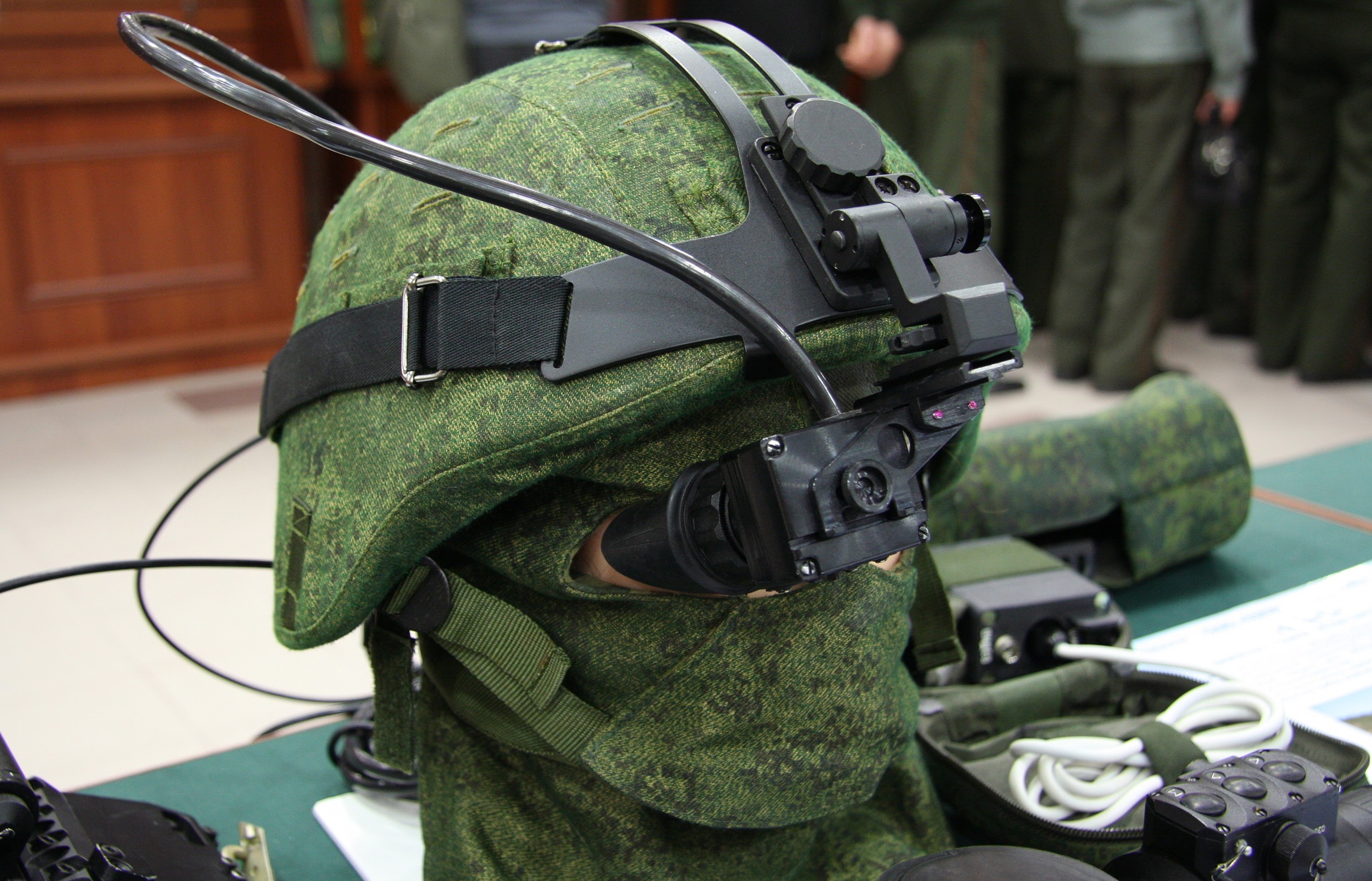 Helmet monitor without the name from Cyclone company